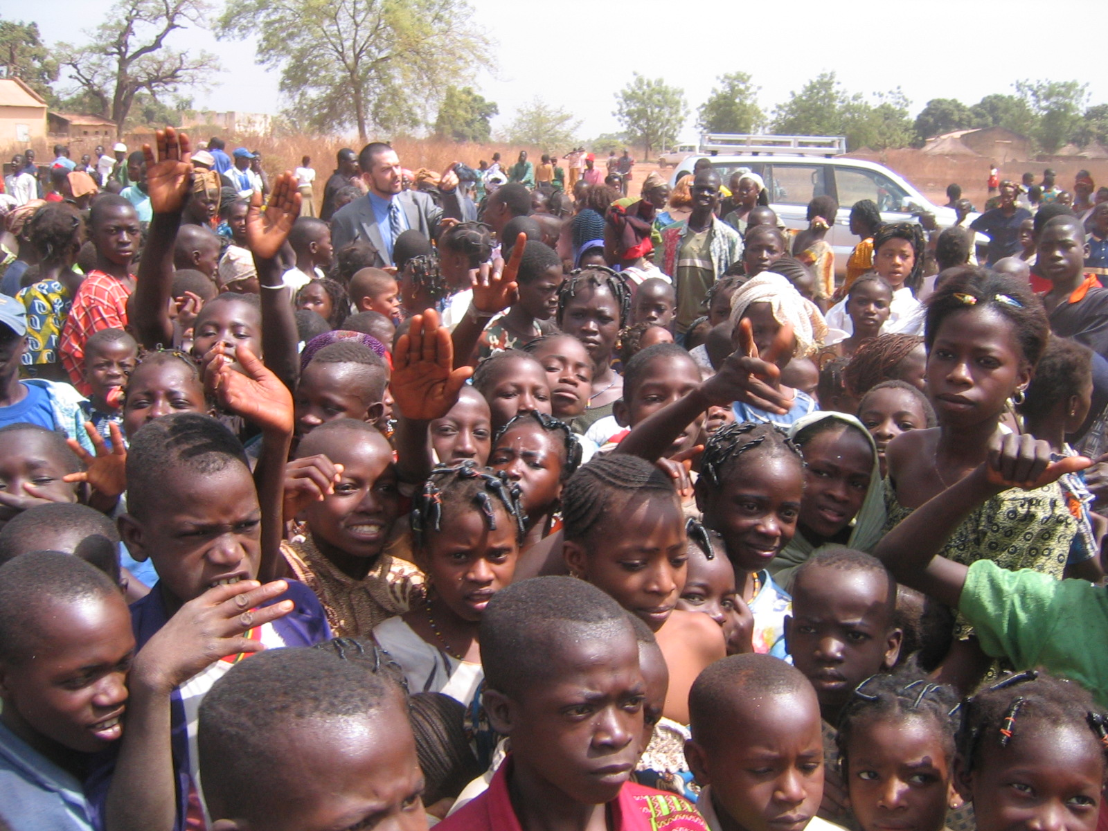 Children of Yanfolila, Mali. In the background some people from Geekcorps and other NGOs.